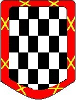 Coat of arms Marquis of Santa Cruz. Chessboard and around cross of S. Andrew .